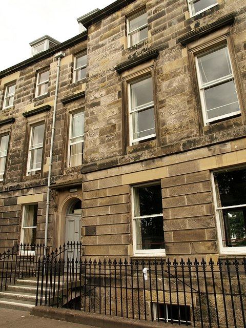 Jo Grimond's birthplace. A plaque reads: "No 8 Abbotsford Crescent. Birthplace of Jo Grimond. 29th July 1913 - 24th October 1993. Radical Liberal Statesmen. Leader of the Liberal Party (1956-1967 and 1976). MP for Orkney and Shetland (1950-1983)". See also 148675.